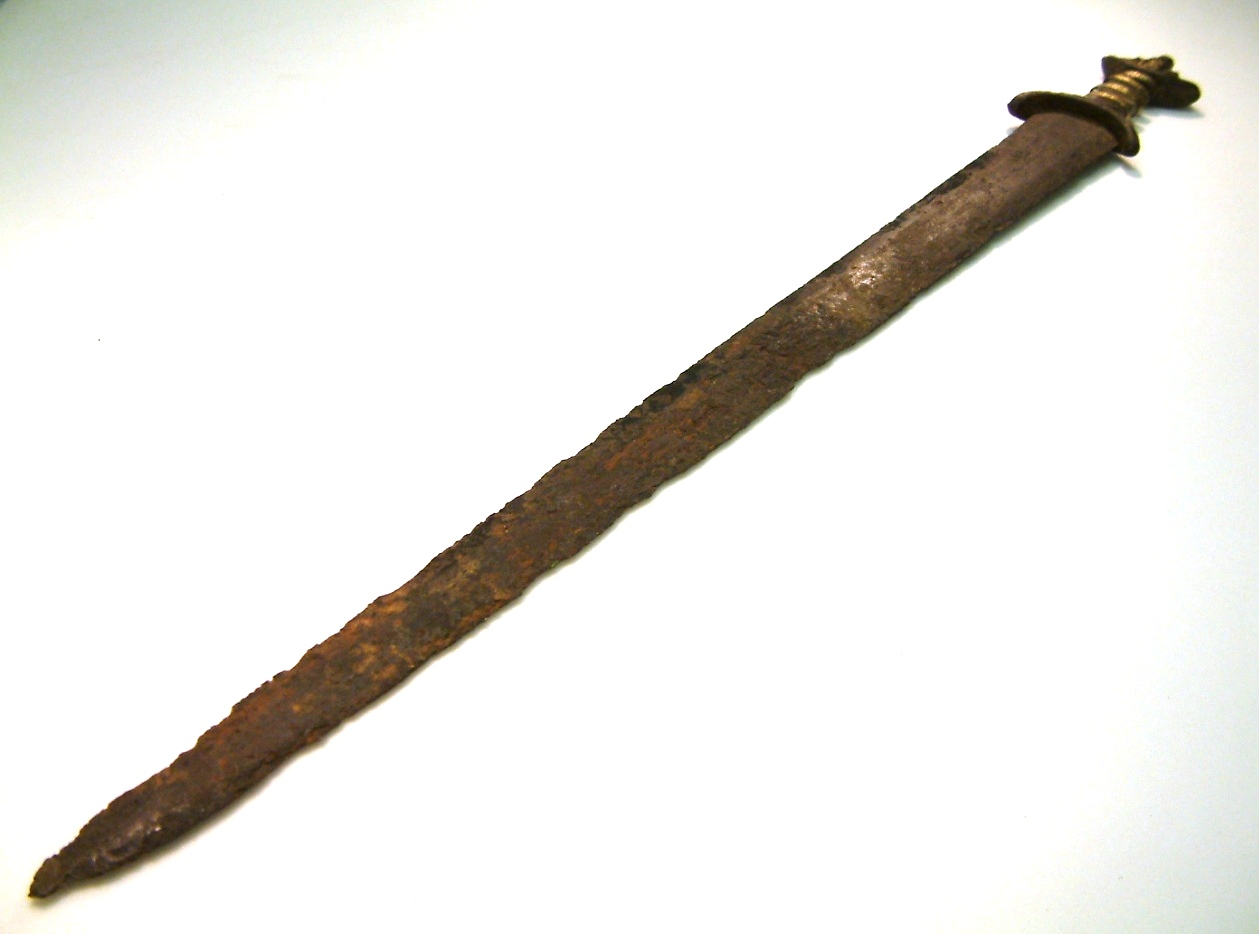 Iron blade with five silver bands on grip and silver plaques on pommel. Two edged blade, pattern welding, pommel decorated with silver plates with geometric decoration, five silver bands in grip, grip missing. Elaborate pommel with large central lobe topped with a circular button below which is a silver band decorated with vertical lines, on both sides of the lobe there are small plaques with a geometric circular design. Running vertically on the shoulders of the pommel either side of the lobe are two thin silver bands decorated with horizontal lines. The shoulder beyond these are concave and curve to meet another silver band which runs along the top of the upper guard, again decorated in a geometric pattern. The tang is visible through the silver bands that remain from the grip - which too bear the geometric pattern - between there it can be seen to reduce steeply in size as it reaches the pommel. The guard is thick but short, curving at an angle similar to that of the pommel it is slightly deformed on one arm. The blade by the hilt is black and reasonably intact, it still holds a sharp edge, and the cutting edge is chipped as well as corroded. The condition of the blade becomes worse toward the tip and the wide shallow fuller or plane which runs along the blade becomes obscured in the damaged portion, the blade is also reasonably loose in its hilt.